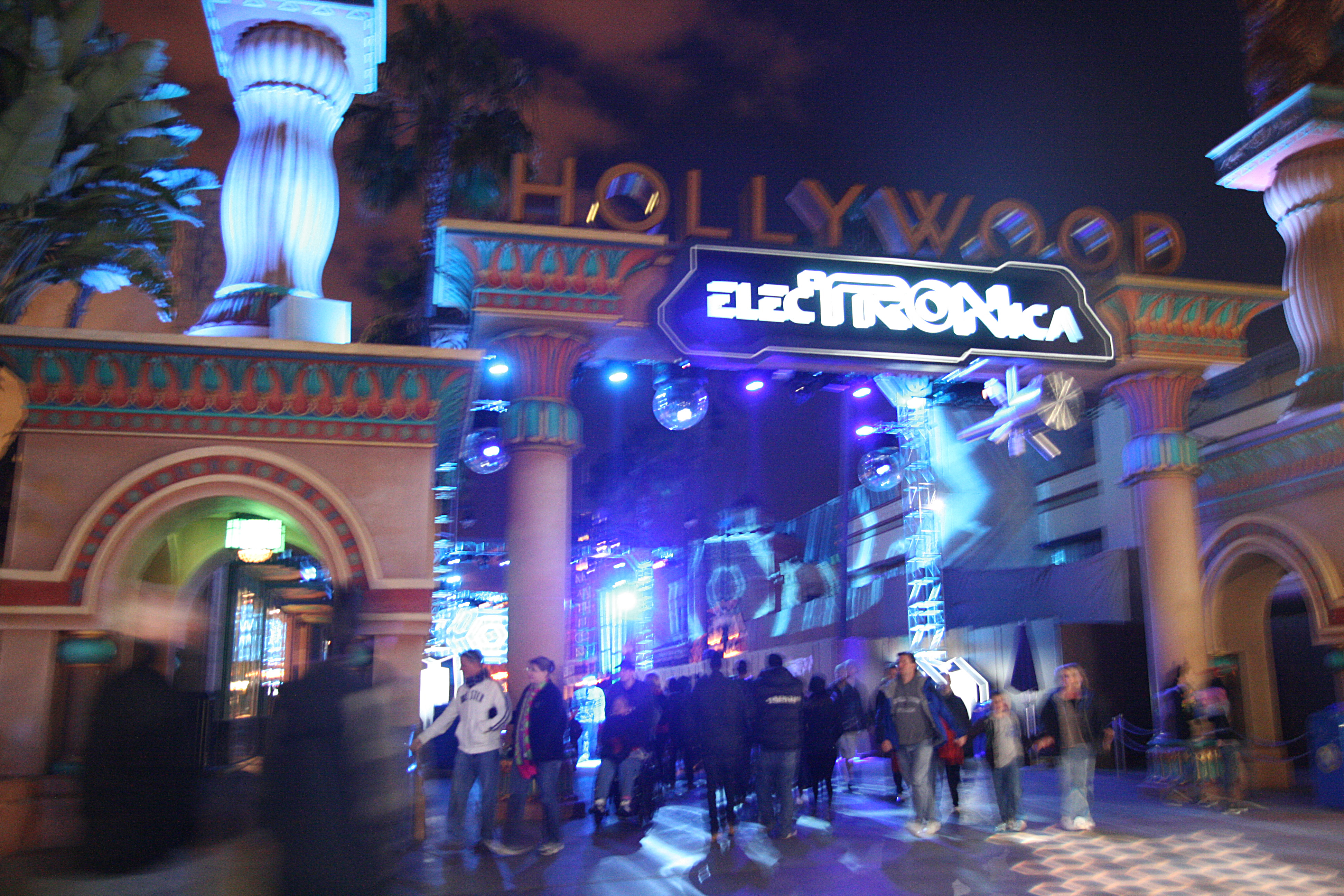 ElecTRONica entrance in the Hollywood Pictures Backlot at Disney California Adventure.